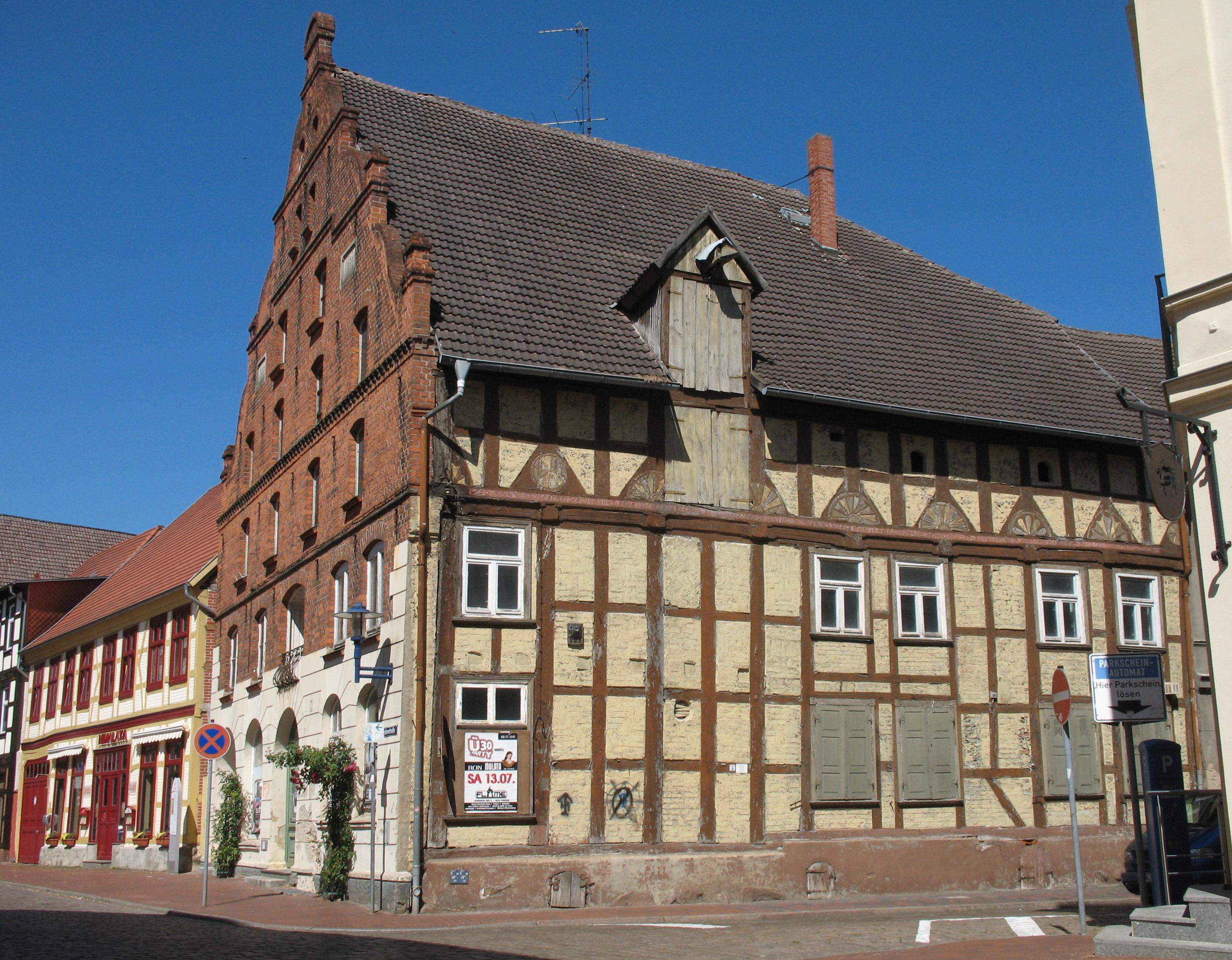 Building in Parchim in Mecklenburg-Western Pomerania, Germany